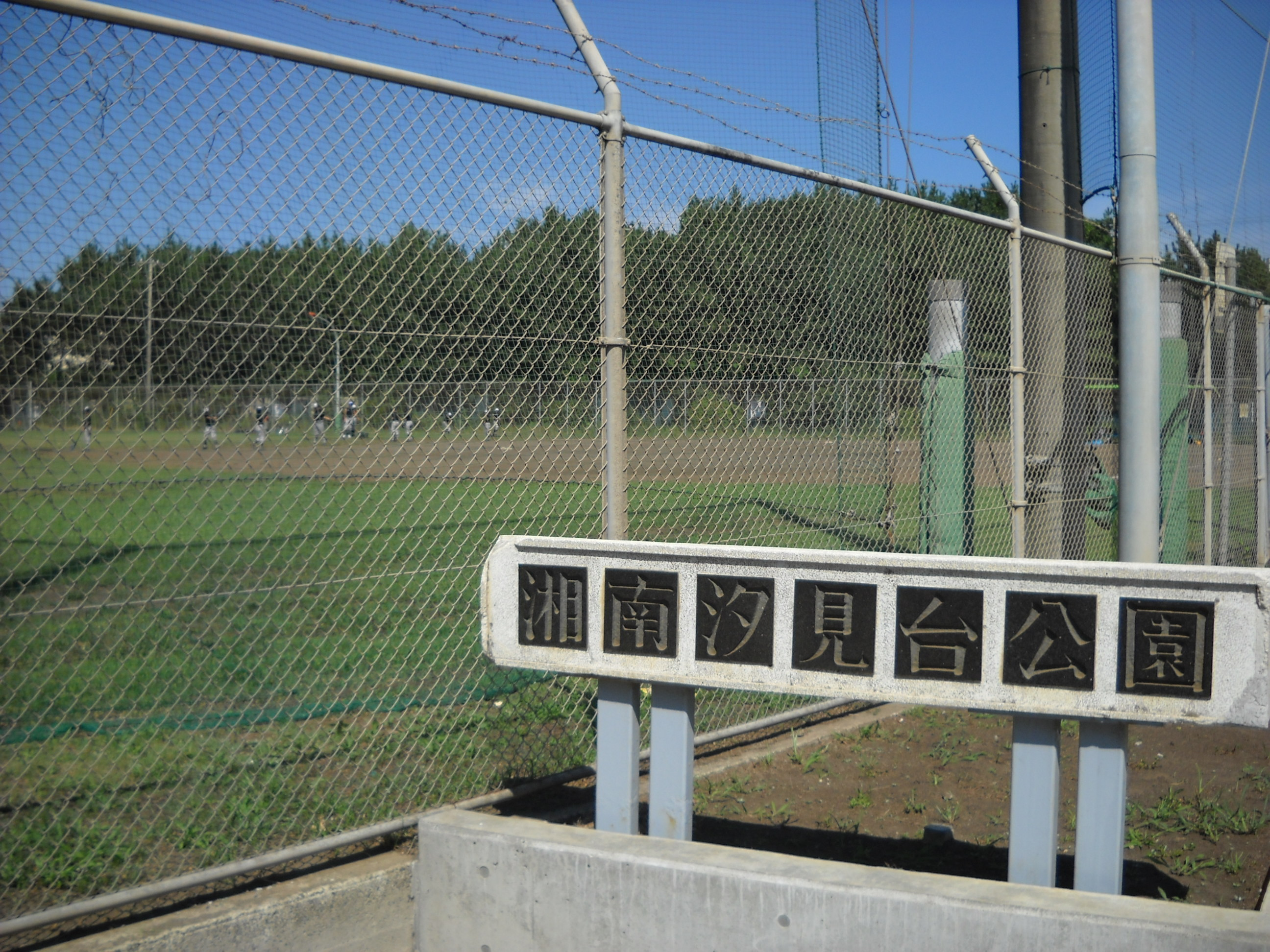 Shonan shiomidai park,Chigasaki city,Kanagawa Pref., Japan